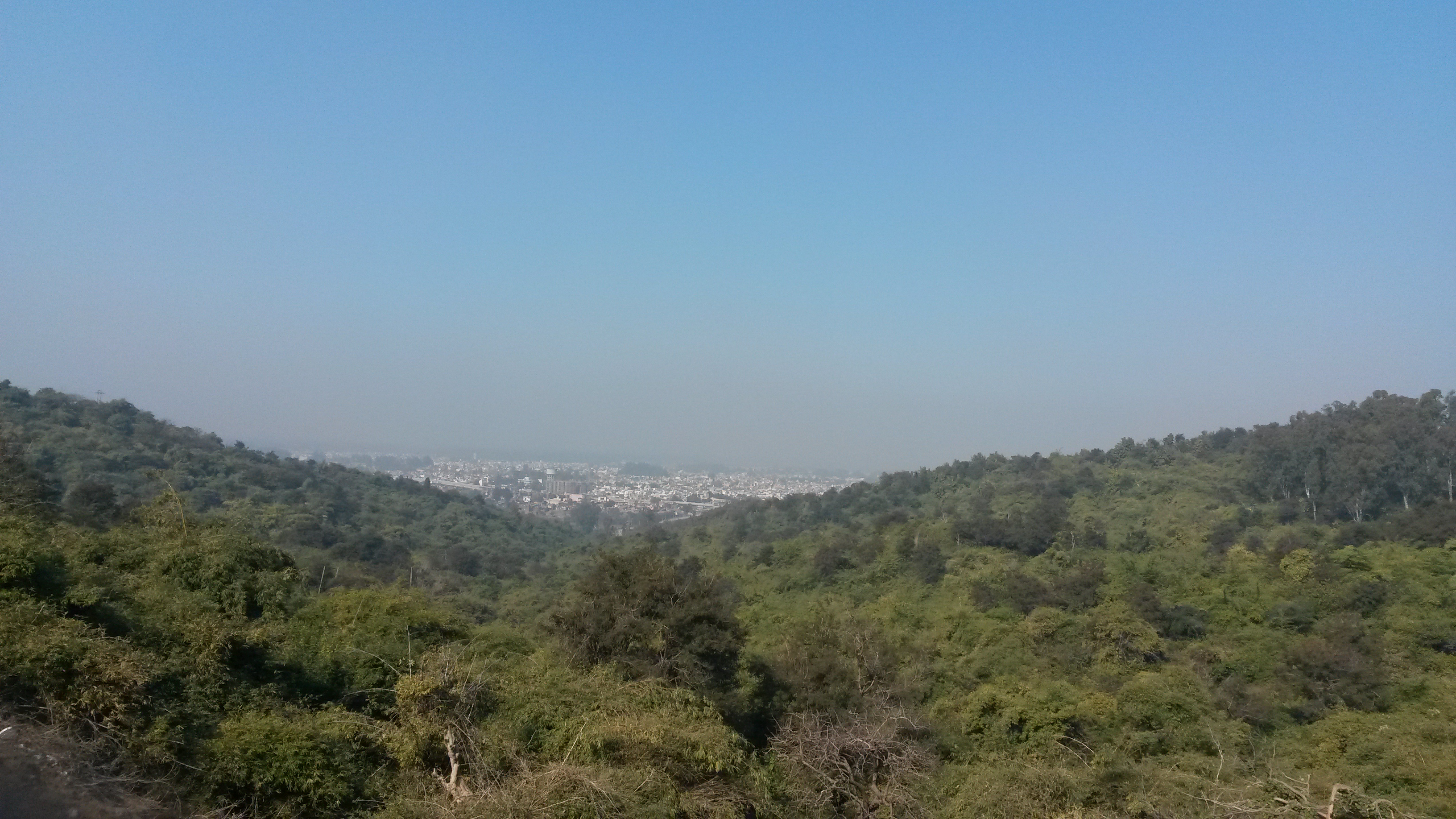 Pathankot City